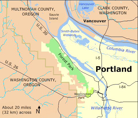 Map of Forest Park (Oregon) showing location within Portland, Oregon, and the surrounding region. Adjacent Washington Park is shown in lighter green.